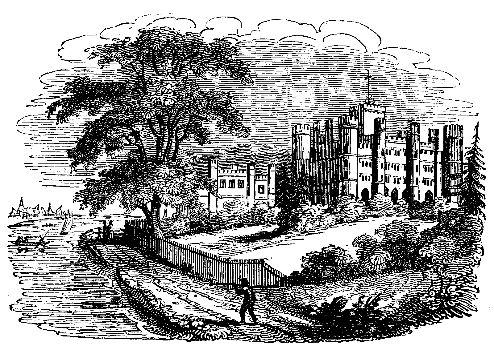 Kew Palace from The Mirror of Literature, Amusement, and Instruction, Vol. 10, No. 275, September 29, 1827